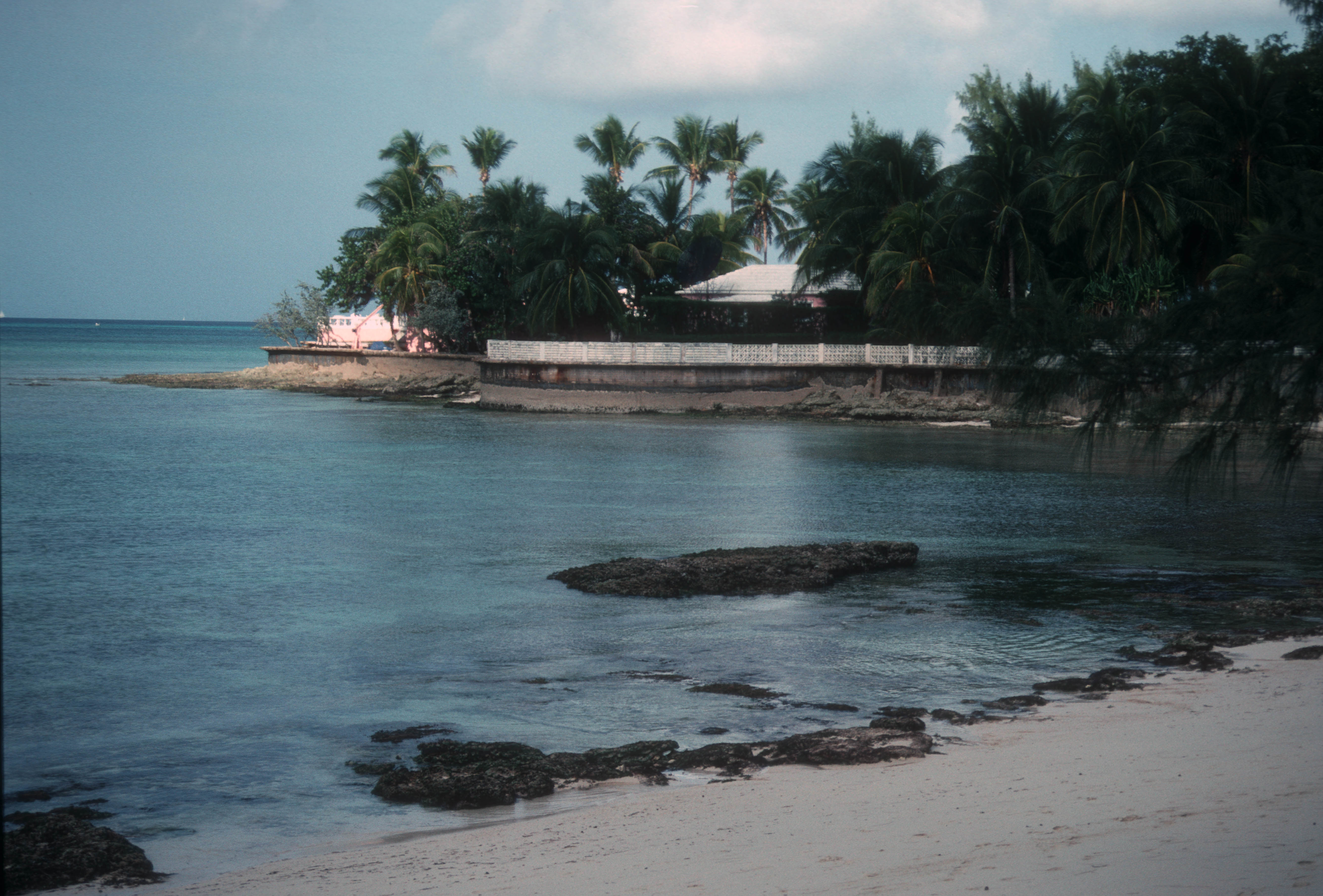 ROCK POINT-(ESTATE OF MILLIONAIRE COUPLE - THE SULLIVANS) HOUSE WHERE A PORTION OF JAMES BOND'S THUNDERBALL WAS FILMED; CONTAINS THE SHARK SWIMMING POOL